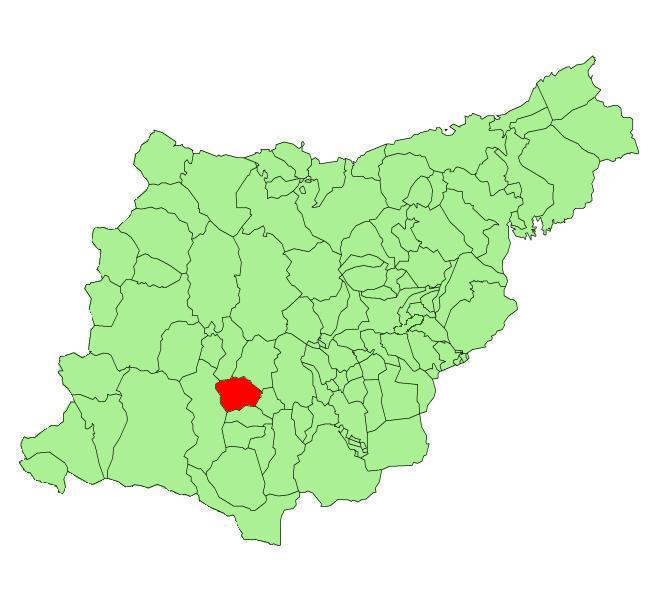 Gabiria municipality in the province of Guipuzcoa